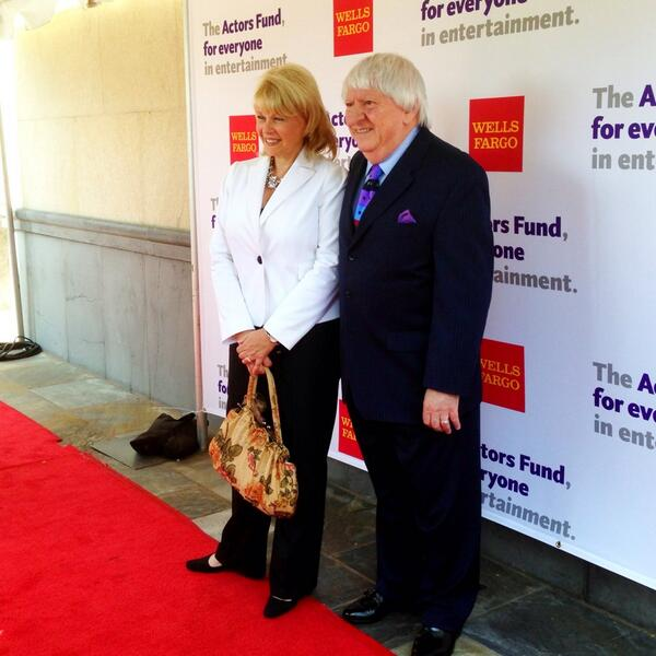 Ilene Graff and Husband Ben Lanzarone at The Actors Fund Event